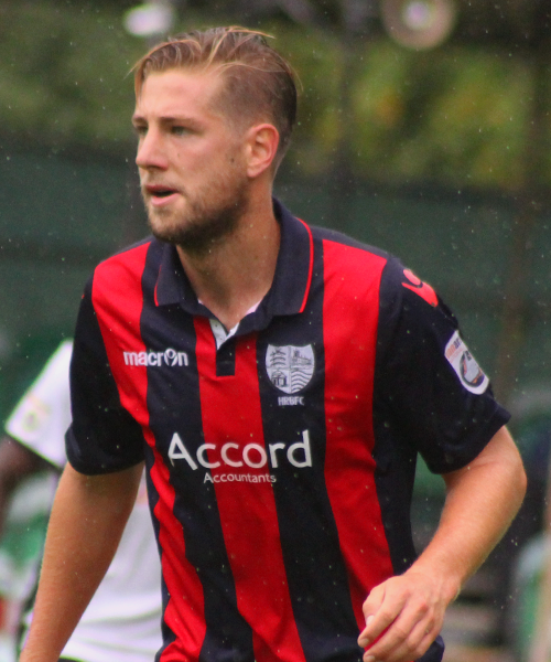 Sam Gallagher playing for Hampton & Richmond Borough in July 2017.